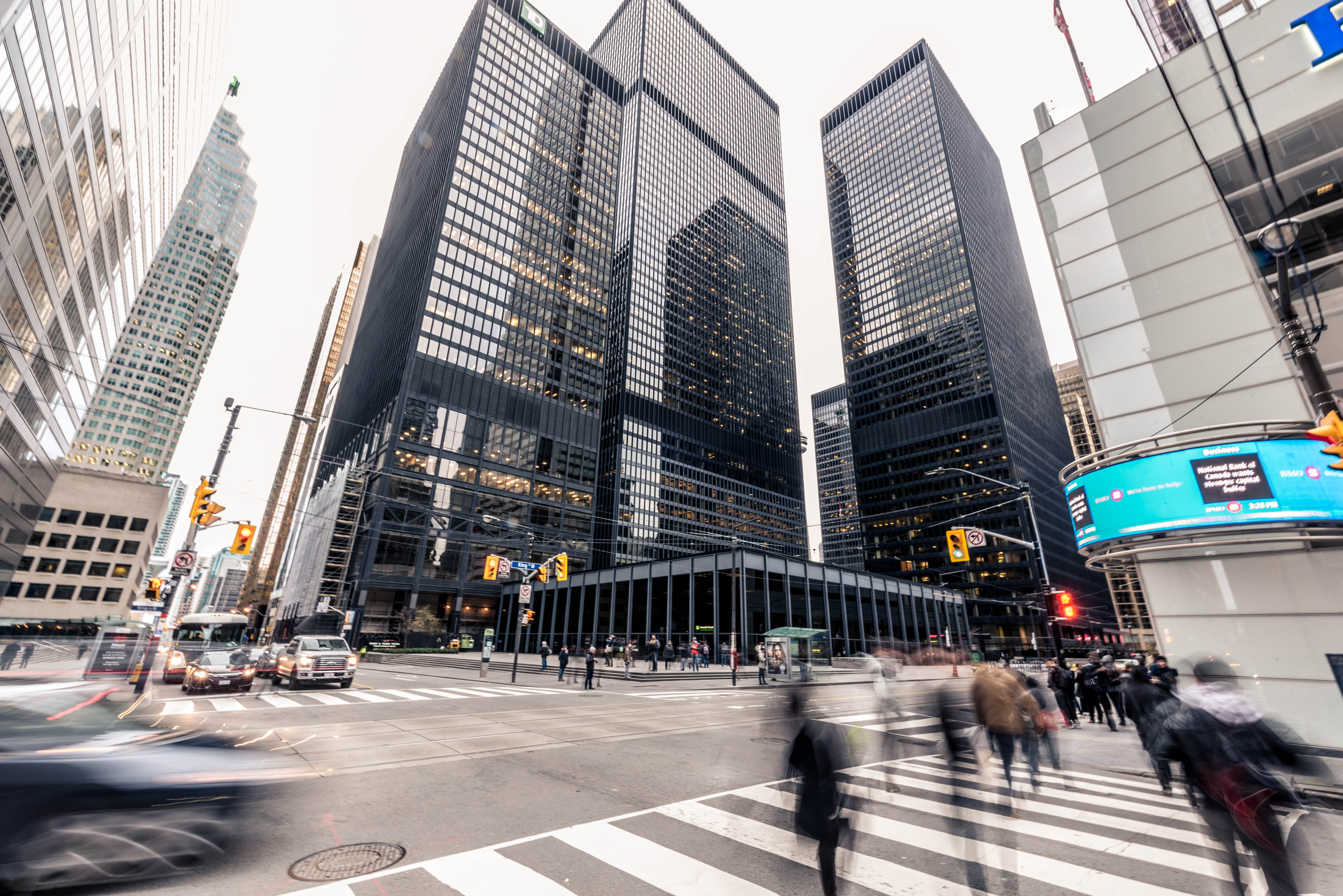 Financial District, Toronto, Canada